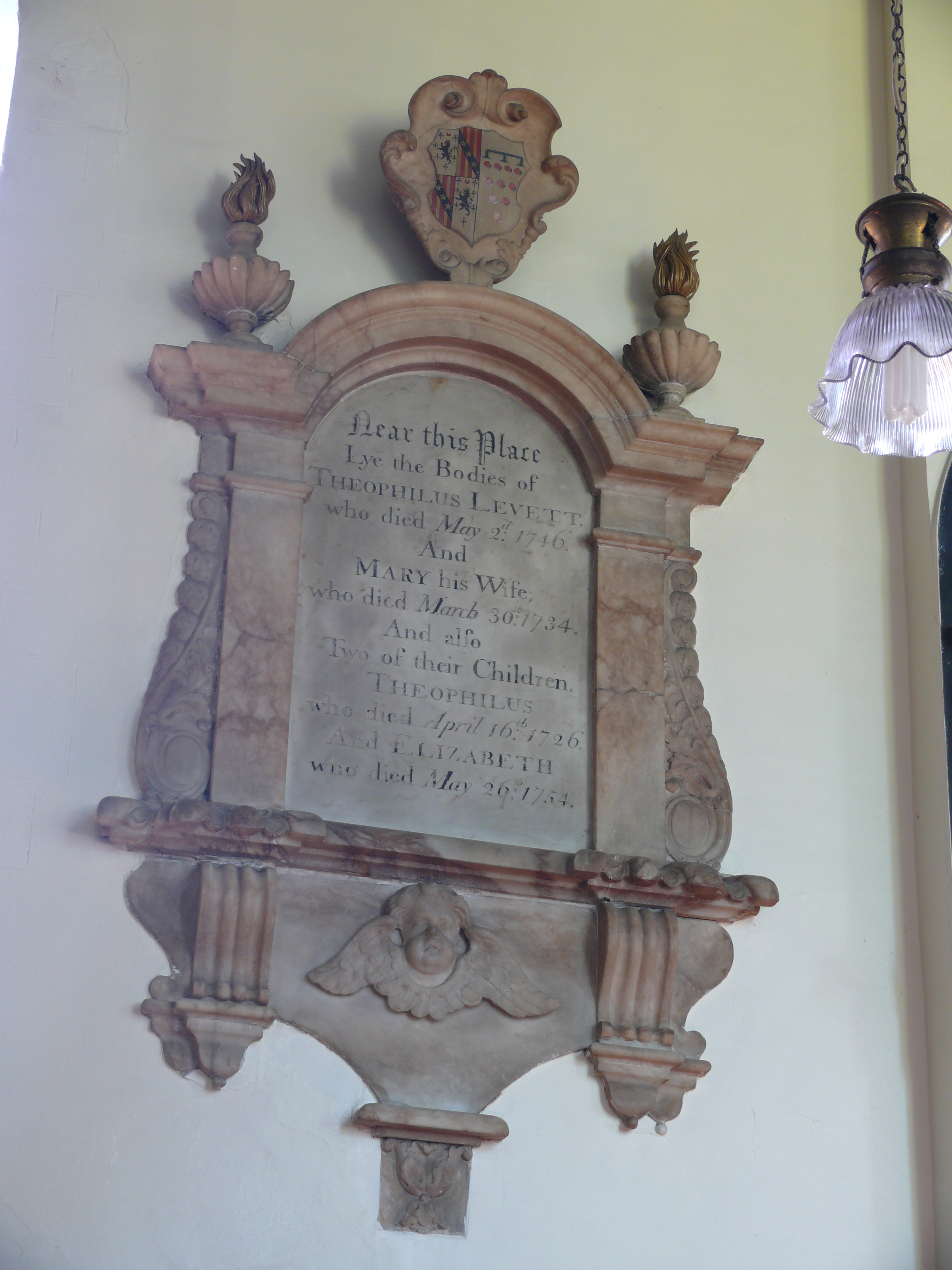 Alabaster monument to Theophilus Levett in St Giles' parish church, Whittington, Staffordshire. The arms of Levett are quartered with those of Elton of The Hazle, Ledbury, Herefordshire, ancestors of the Levett family, and differenced with those of Babington, the arms of Levett's wife's family. Theophilus Levett's wife Mary was the daughter of Zachary Babington, a barrister who is also buried at St Giles.